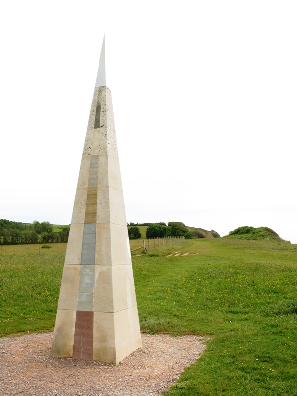 The Geoneedle at Orcombe Point, Exmouth, Devon. This was unveiled by Charles, Prince of Wales, on 3 October 2002 to mark the western end of the Jurrassic Coast, a World Heritage Site. It is made from a sample of each of the different rock types along the Jurassic Coast. A close up of the inscription can be seen at File:Orcombe Point Geoneedle plaque.jpg.